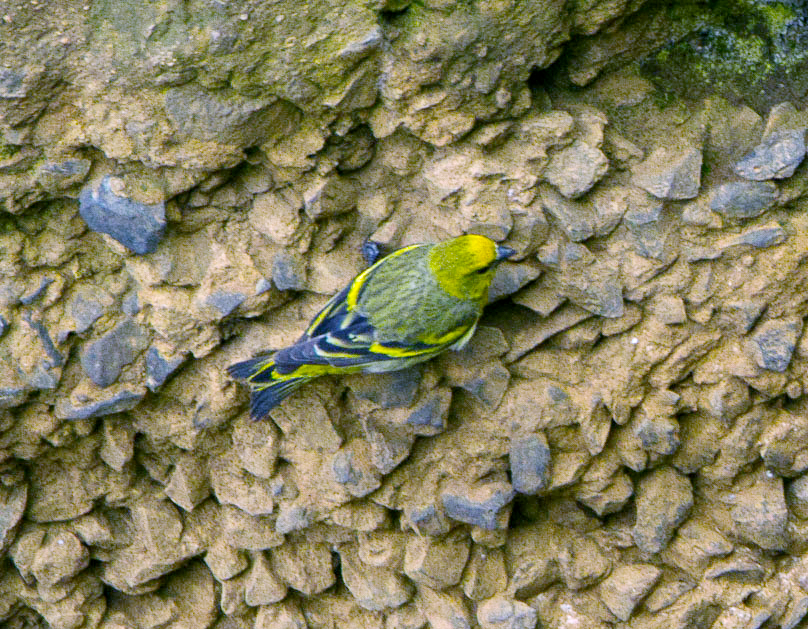 Yellow-crowned Canary - Mt.Kenya_S4E7761